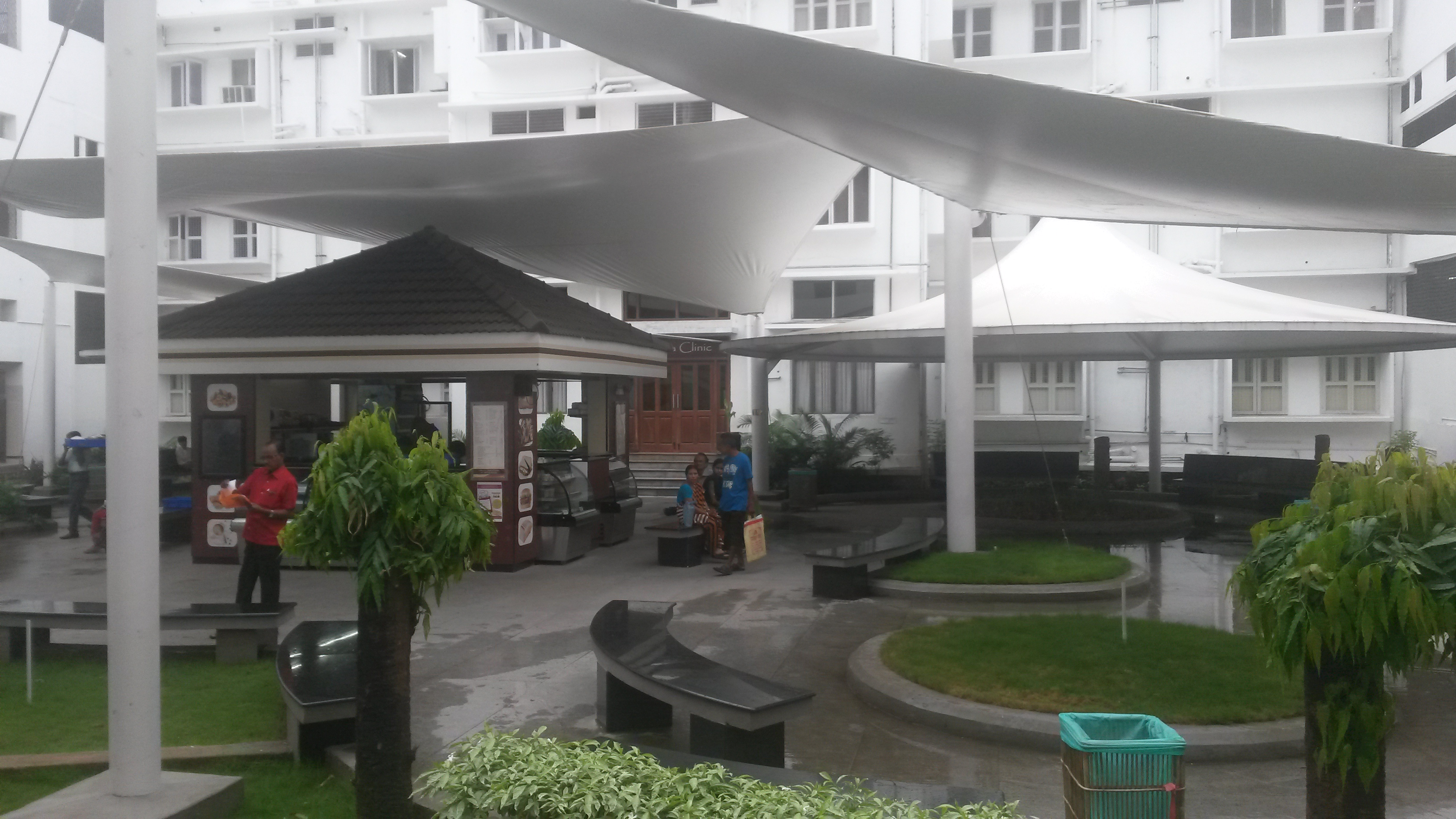 CMC Vellore images